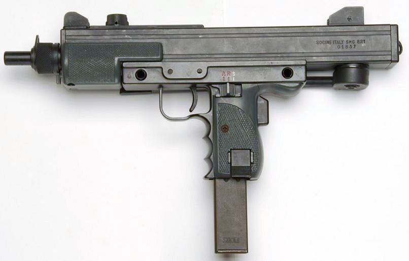 SOCIMI Type 821-SMG 9x19mm - Right side with stock folded